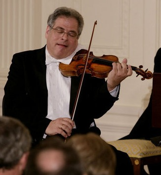 Violinist Itzhak Perlman plays during the entertainment portion of the White House State Dinner in honor on Her Majesty Queen Elizabeth II, Monday evening, May 7, 2007, in the East Room at the White House.